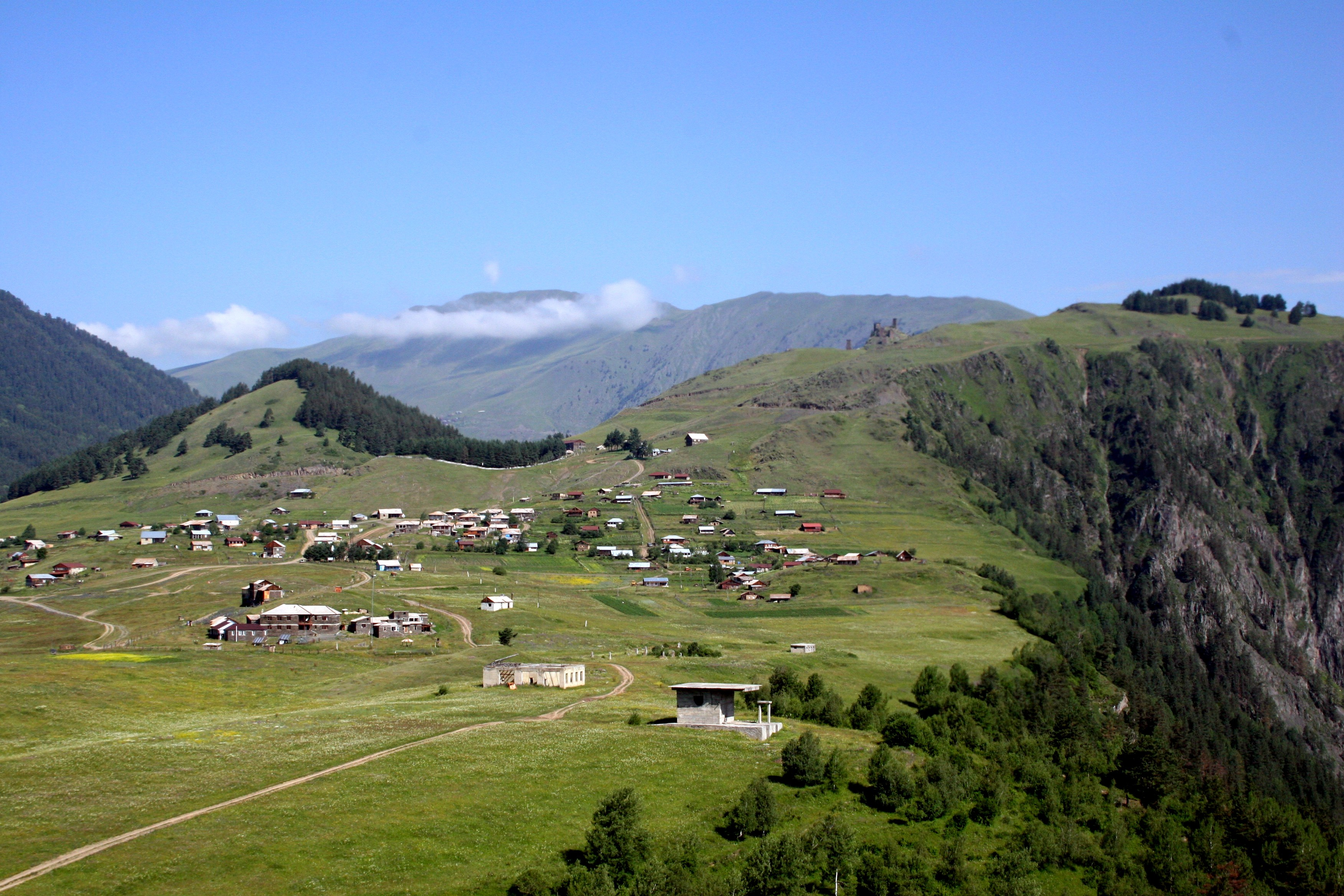 Omalo, administrative center of Tusheti, Georgia